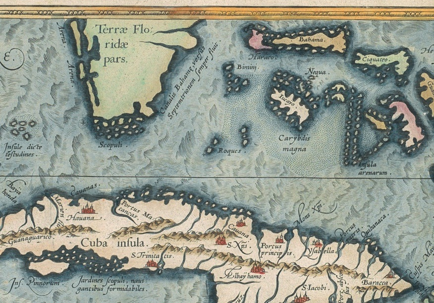 Los Roques in Atlas Ortelius; between 1571 and 1584